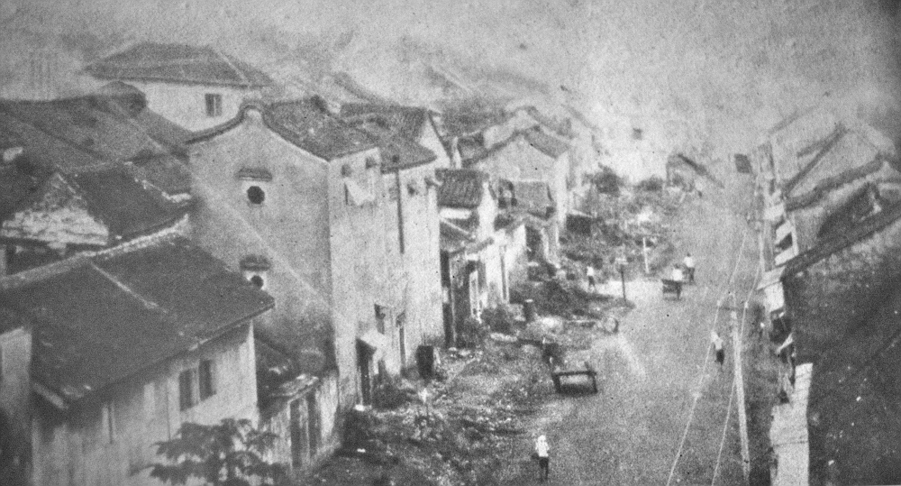 Image of Songkhla's Nakhon Nok Rd., circa 1932.